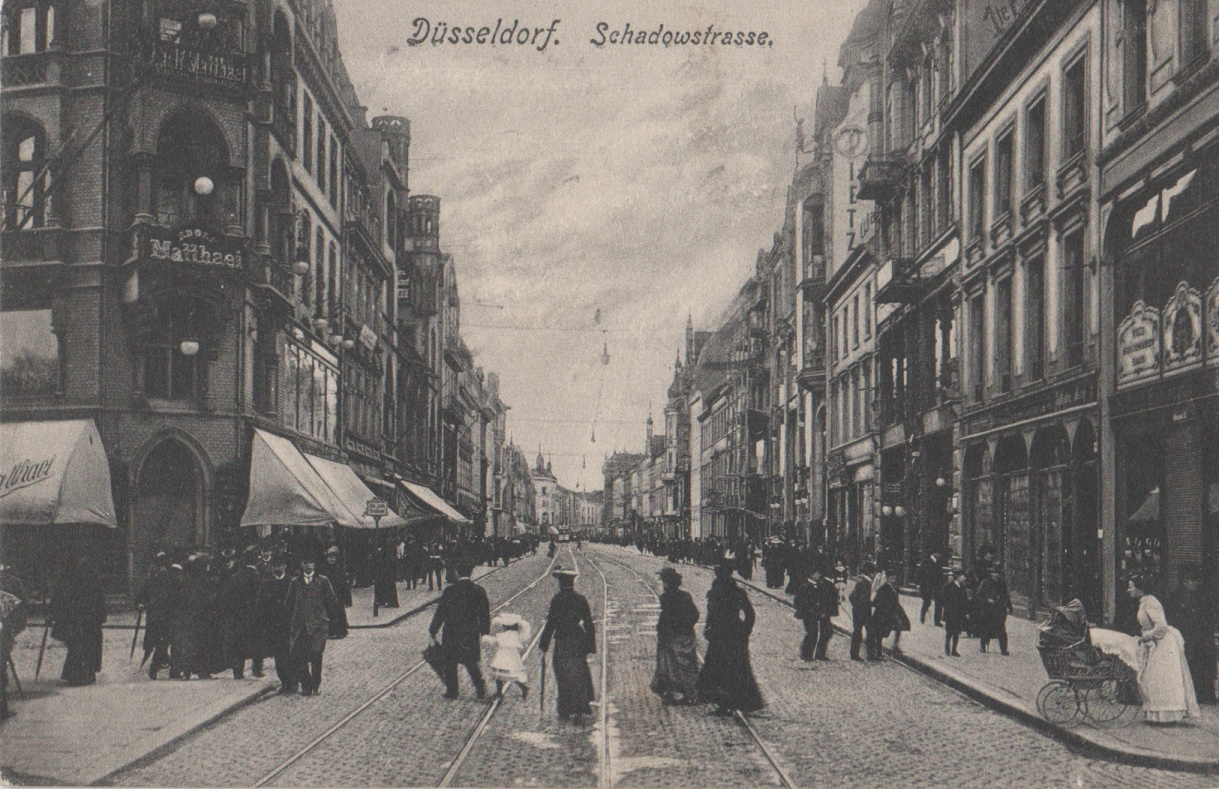 Old Postal Card of the "Schadowstrasse" in Düsseldorf